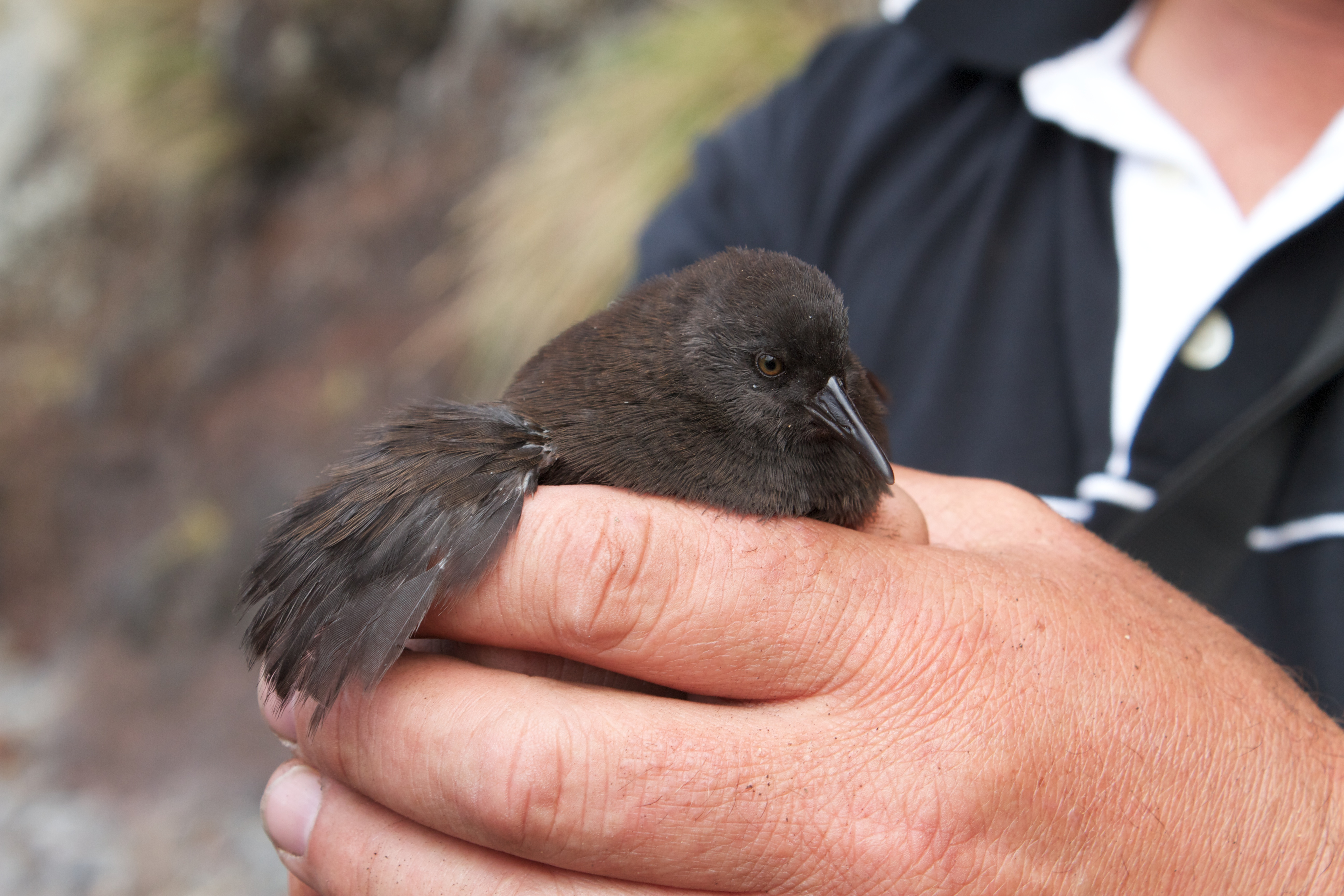 Inaccessible Island Flightless Rail showing wing.